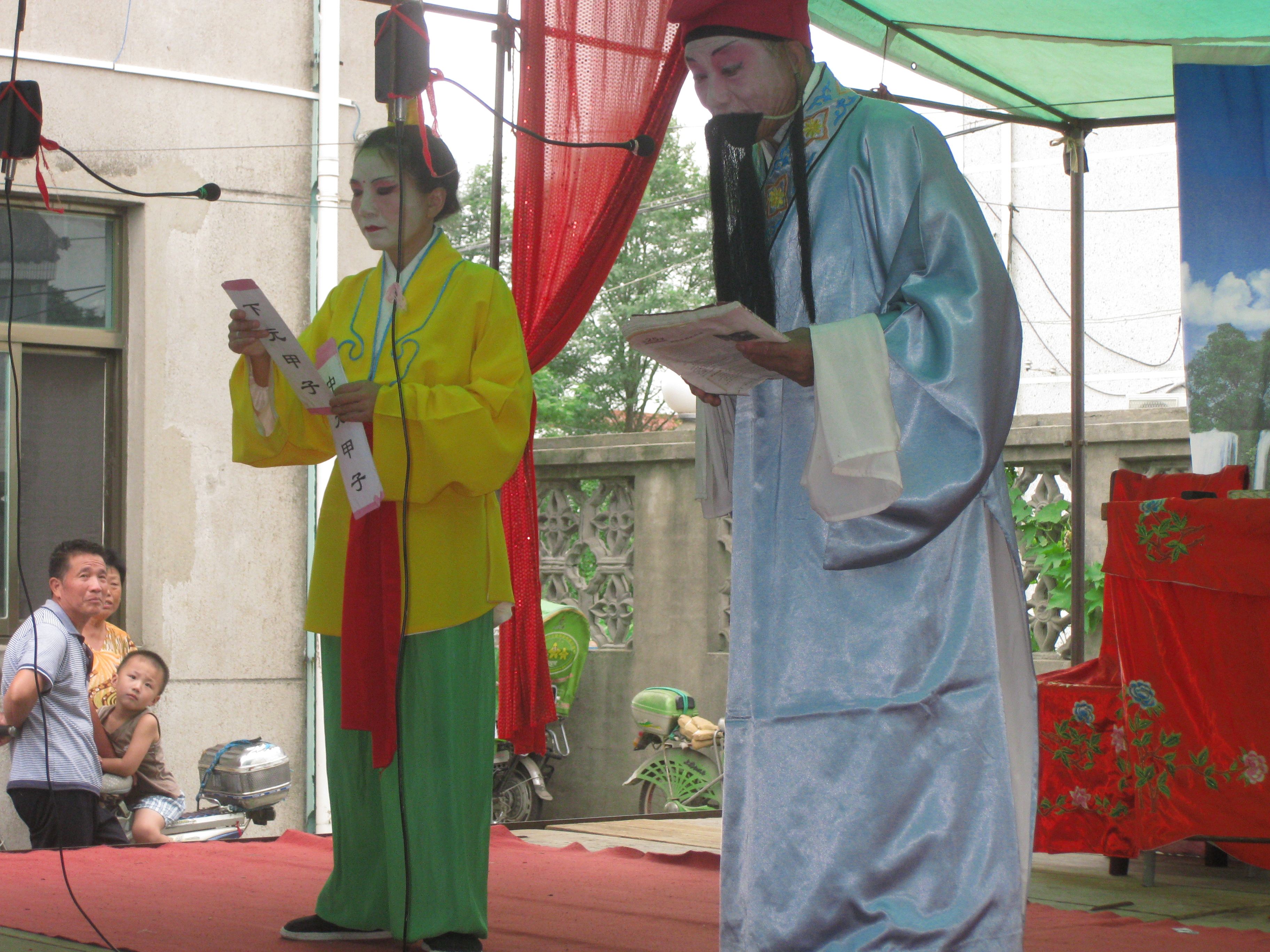 Performance in rural area